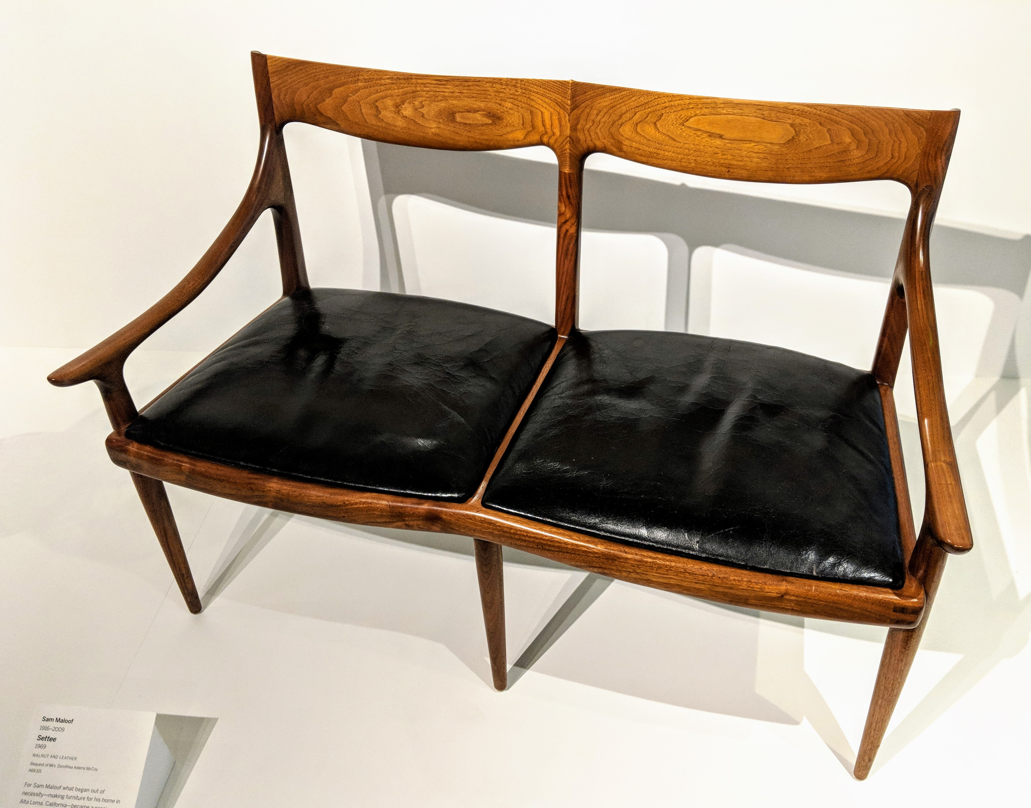 A Walnut and leather setter, made by Sam Maloof in 1969, on display at the Oakland Museum of California. Photo by Jim Heaphy.